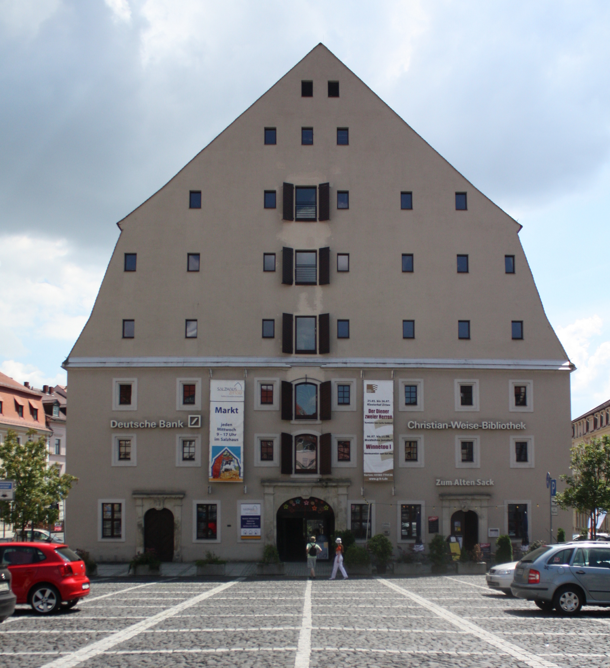 Zittau, Salt House at the Neustadt Square This photo of Lower Silesian Voivodeship was taken during Wikiexpedition 2013 set up by Wikimedia Polska Association. You can see all photographs in category Wikiekspedycja 2013. Permission=Ludwig Schneider put it under GFDL and Creative Commons Attribution ShareAlike 3.0,2.5,2.0,1.0 and cc-by-sa-4.0 - self